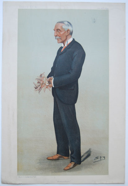 Caricature of Sir Trevor Lawrence, 2nd Baronet (1831-1913). Caption read "Horticulture".